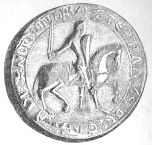 Seal of Stephen of England